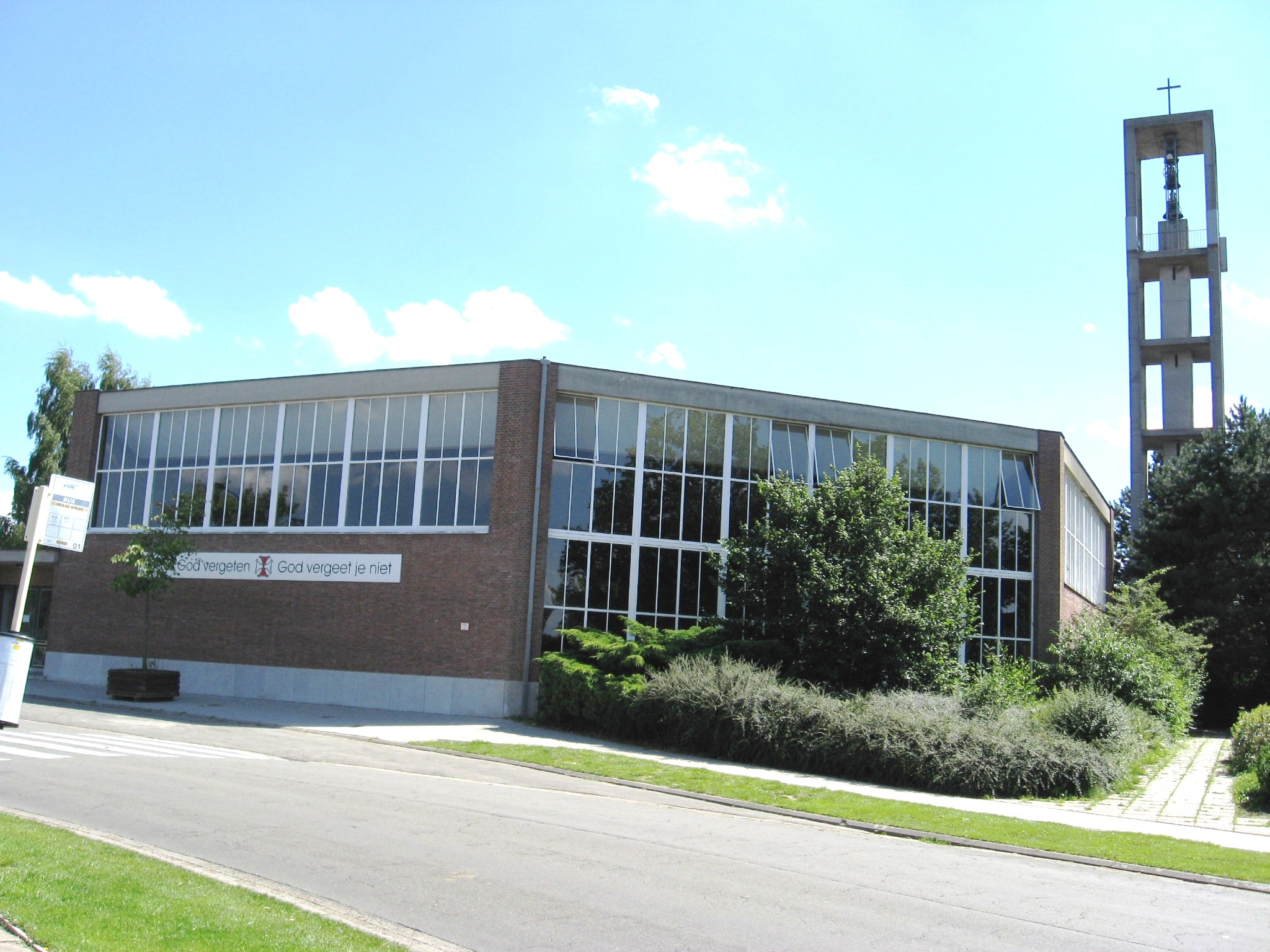 Church of the Holy Cross in Hasselt (Runkst), Limburg, Belgium